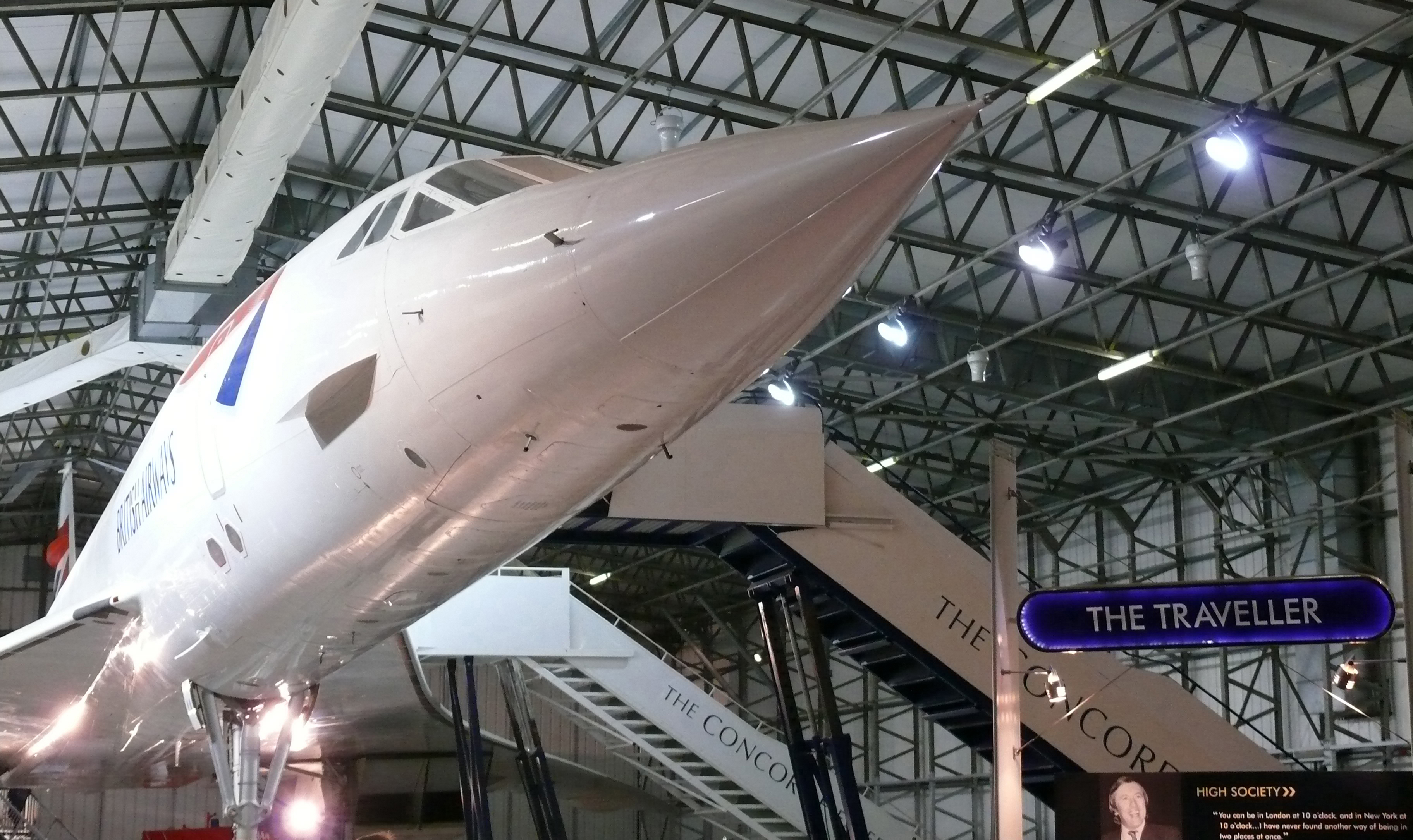 Concorde (G-BOAA) in the National Museum of Flight in East Fortune, East Lothian, Scotland. G-BOAA first flew in November 1975 and became the first of the British Airways fleet to fly commercially when she flew from London to Bahrain on 21 January 1976. It was placed on loan to the Museum in 2004. Museum Number IL.2004.7